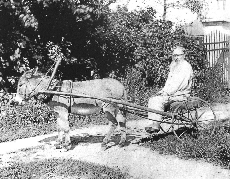 Russian poet Afanasy Fet with his donkey